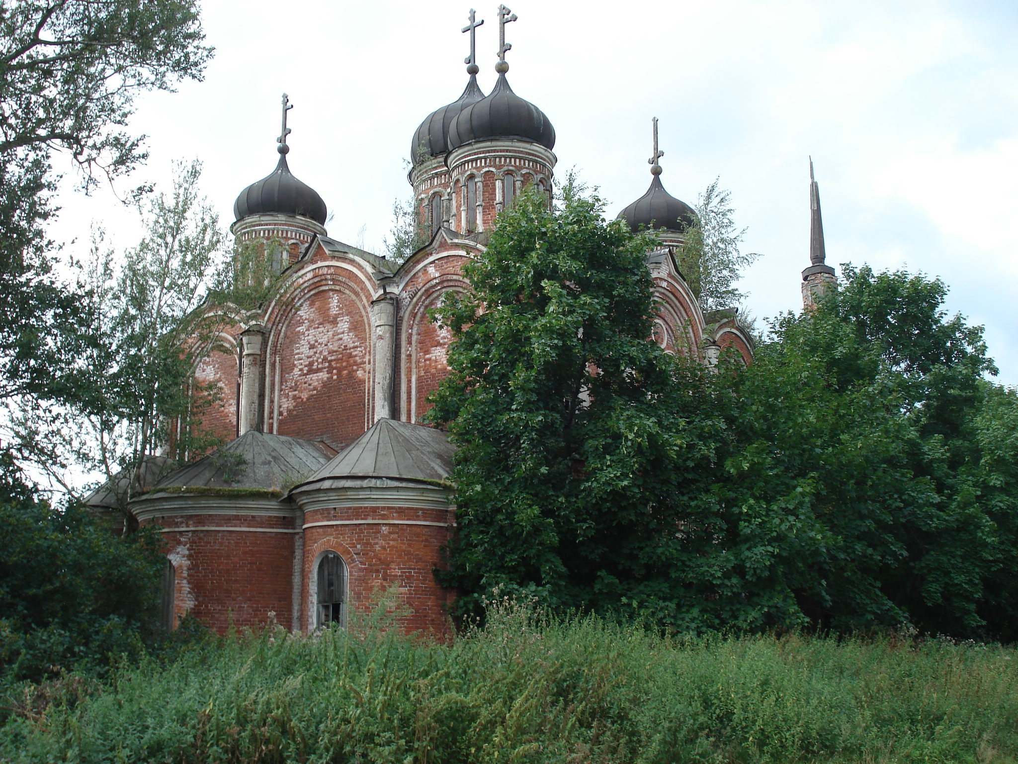 Krasno NizhNovgorod region Trinity Church XIX century